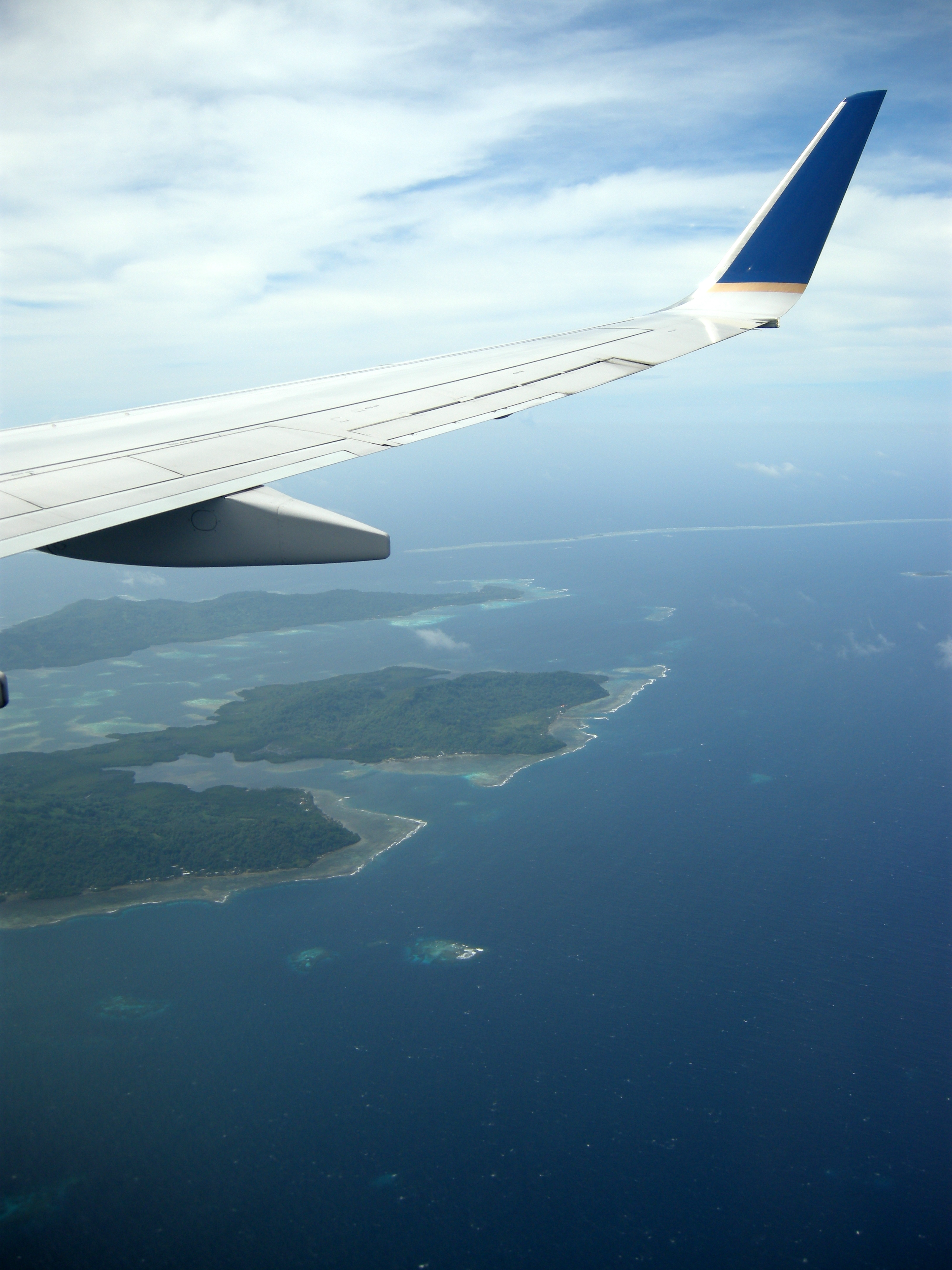 Faichuk islands aerial view from plane (Chuuk lagoon, Federated States of Micronesia). Faichuk consists of four islands : Paata Polle Wonei (Onei) Tol It seems that on this photograph Paata island is in the foreground and Polle in the background.